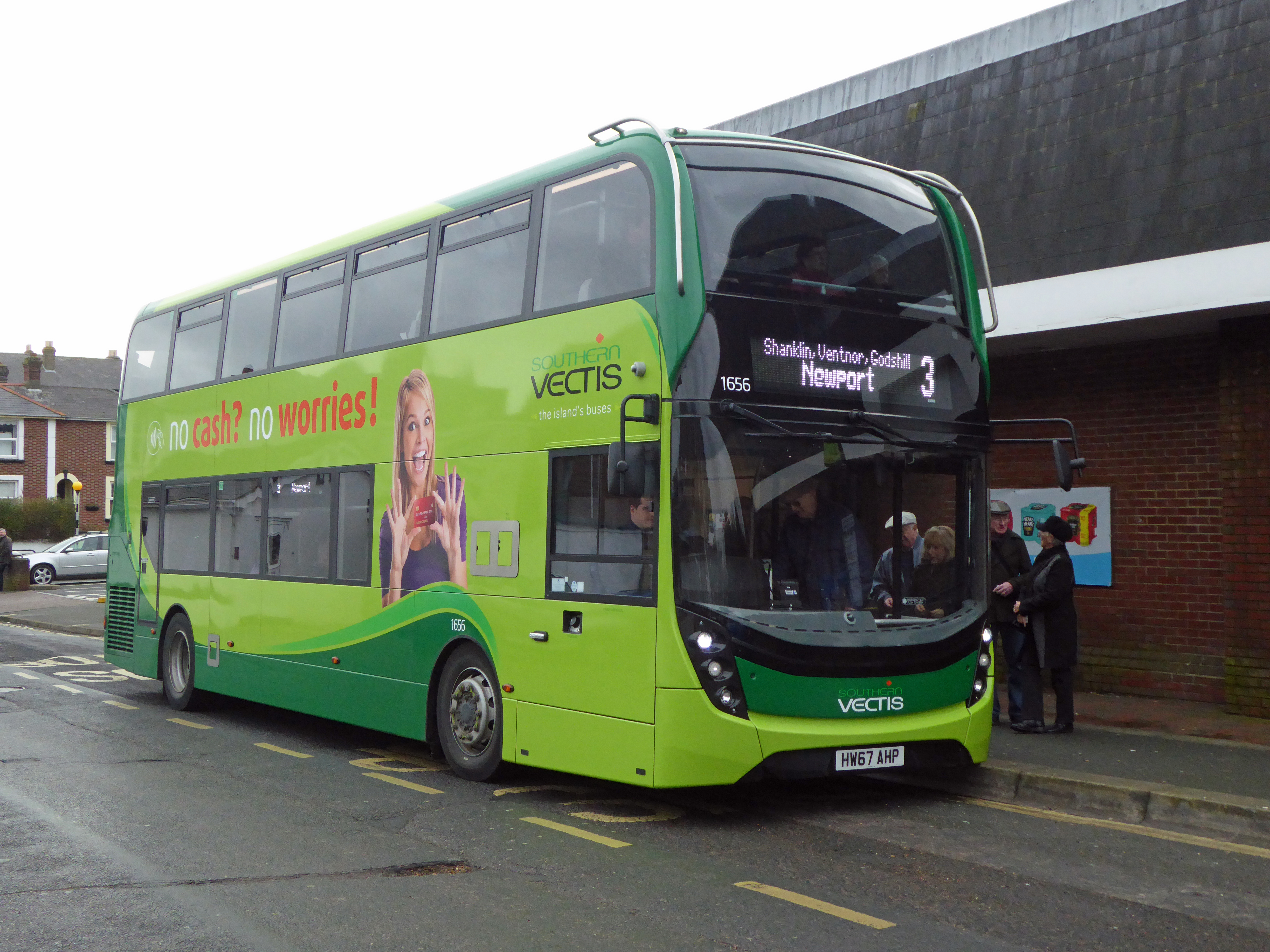 Southern Vectis 1656 HW67AHP an ADL MMC at Shanklin on route 3